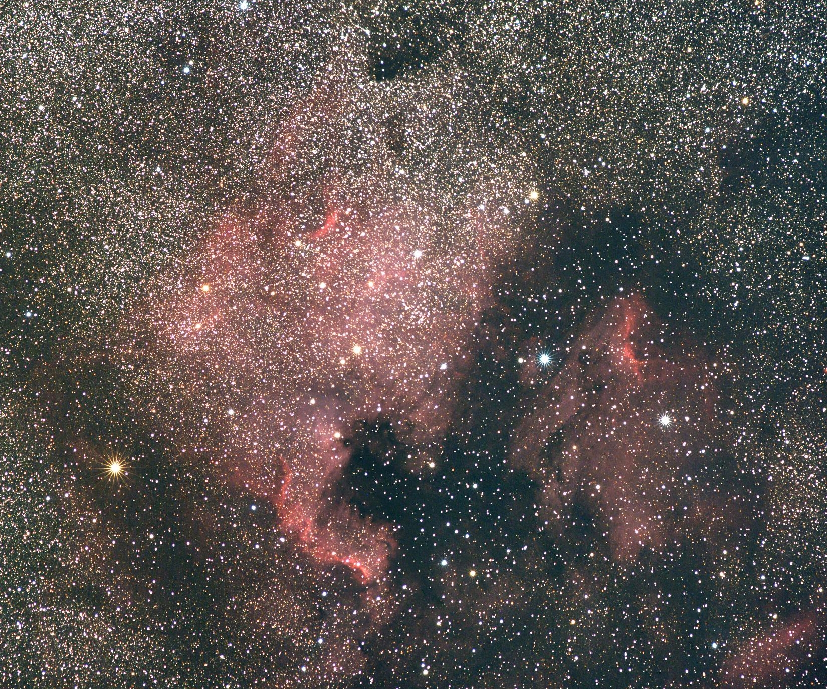 Object: The North America Nebula (NGC 7000, on the left) and Pelican Nebula (IC 5070, on the right) in Cygnus. This is a mosaic of two pictures. Camera: modified EOS 350D (Baader IR cut filter) 6 Exposure: 40' + 45' Exposure start: 2007-09-08 at 22:00 UTC + 2007-09-14 at 22:00 UTC Location: Paslières, Puy-de-Dôme, France Processing: Iris (binning x2)